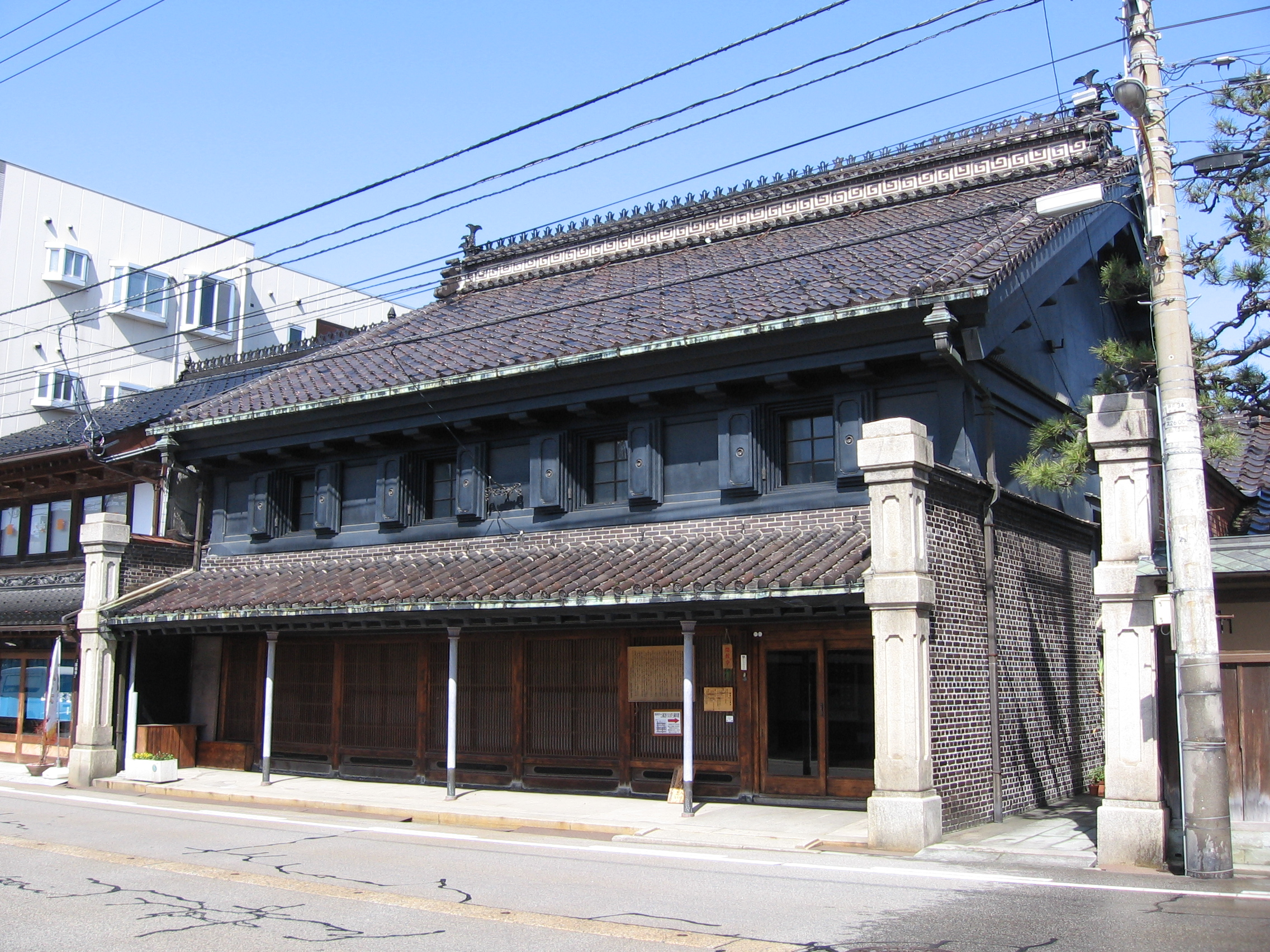 Sugano House